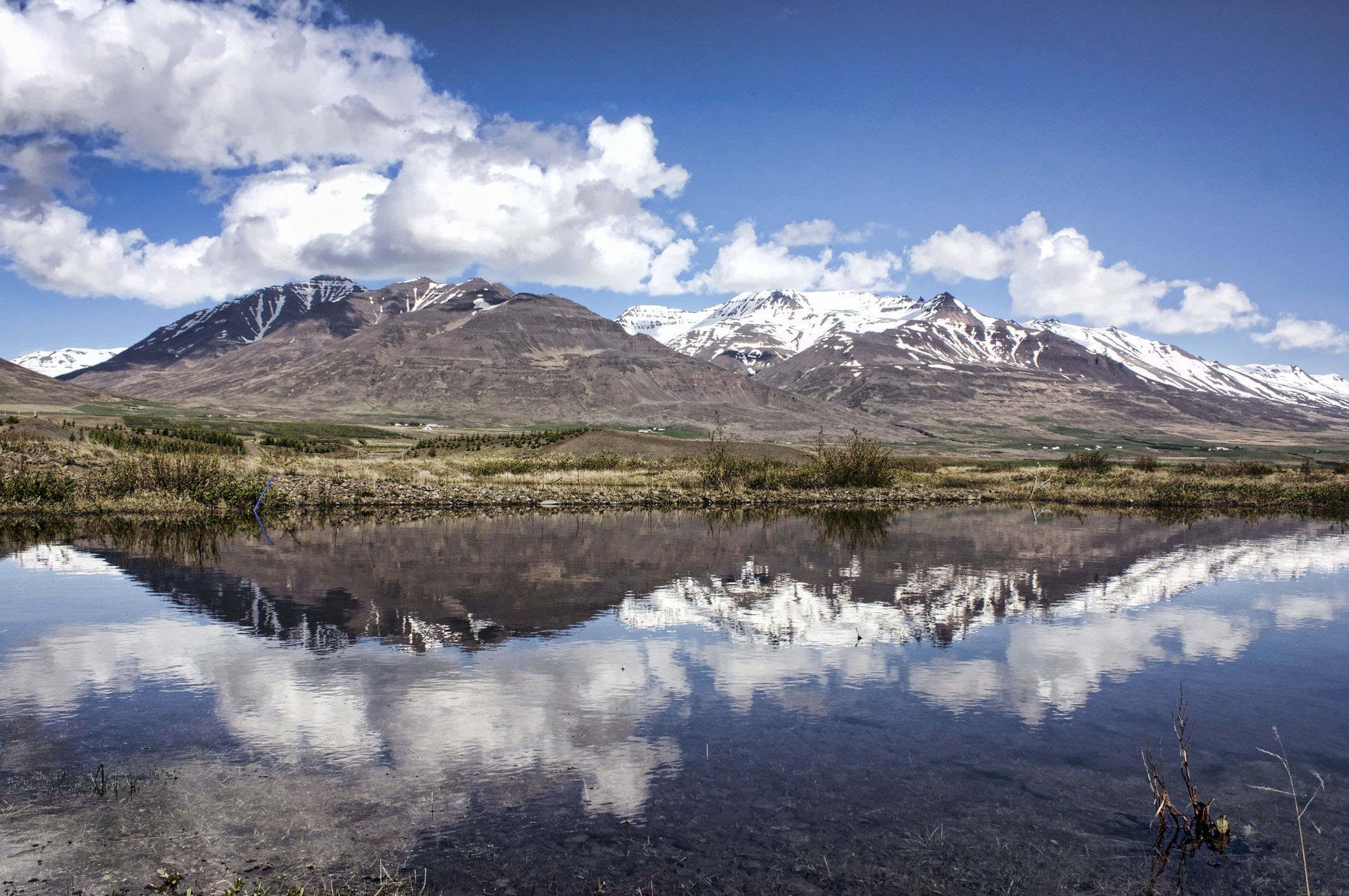 Mt. Kerling in Eyjafjörður